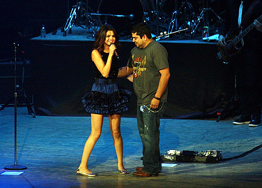 Selena Gomez With Her Father in Houston Texas Livestock Show and Rodeo 2011.